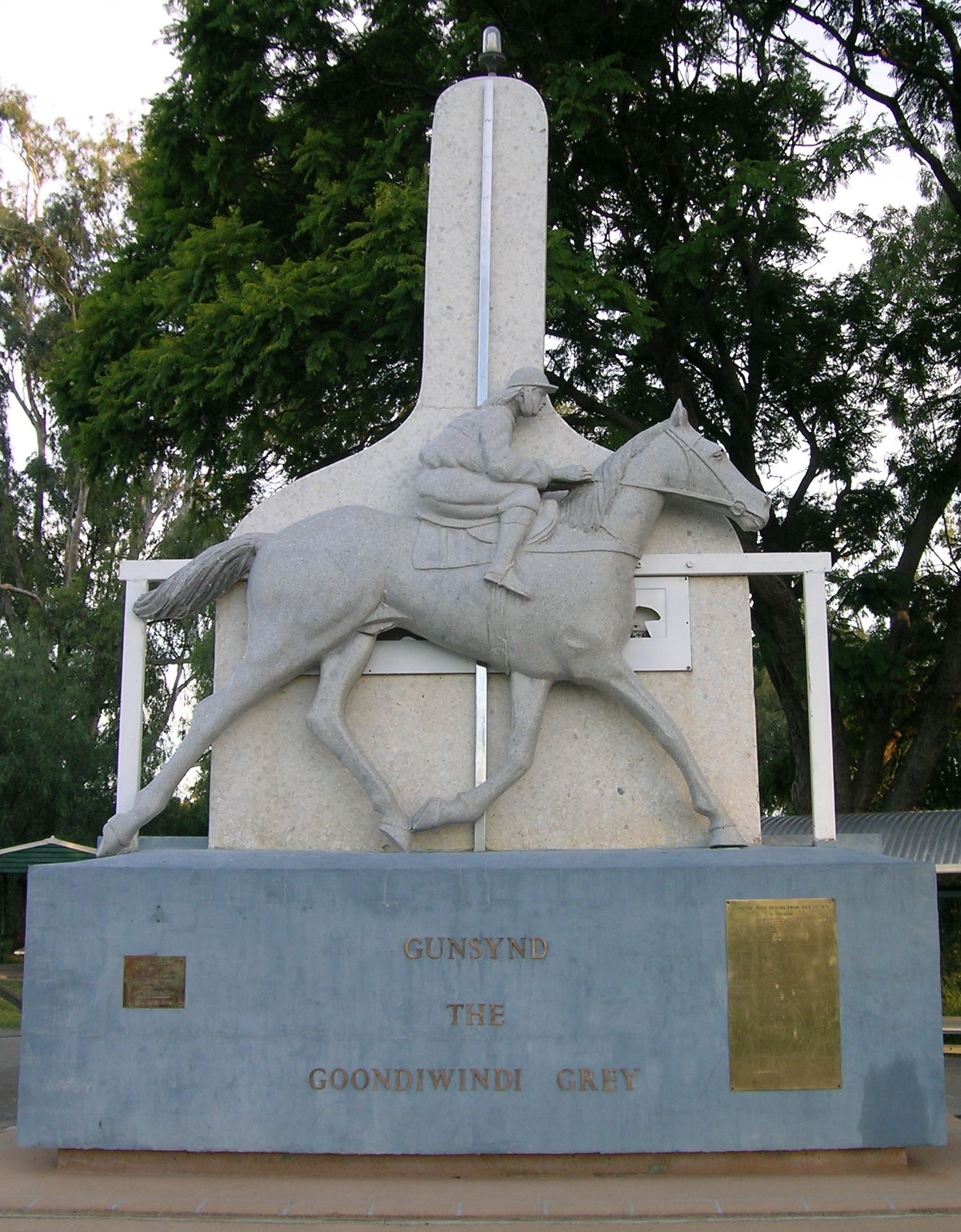 Statue of Gunsynd, Goodiwindi, QLD.